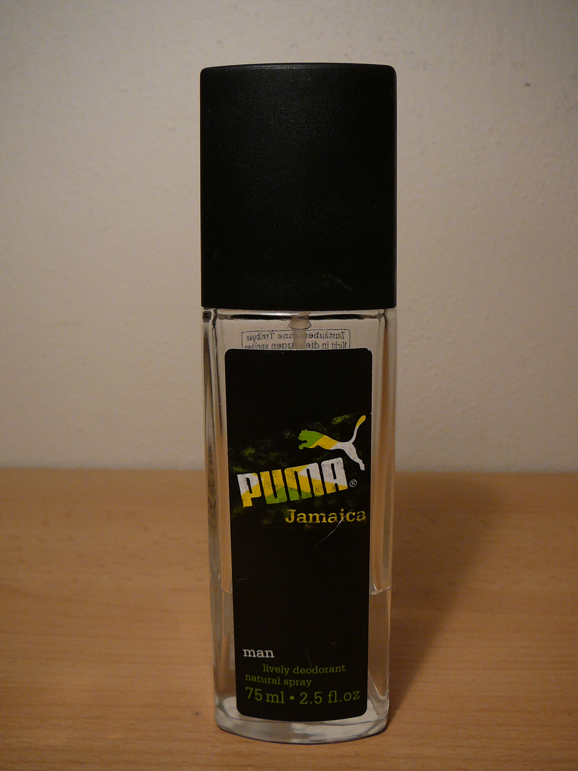 Parfume Puma